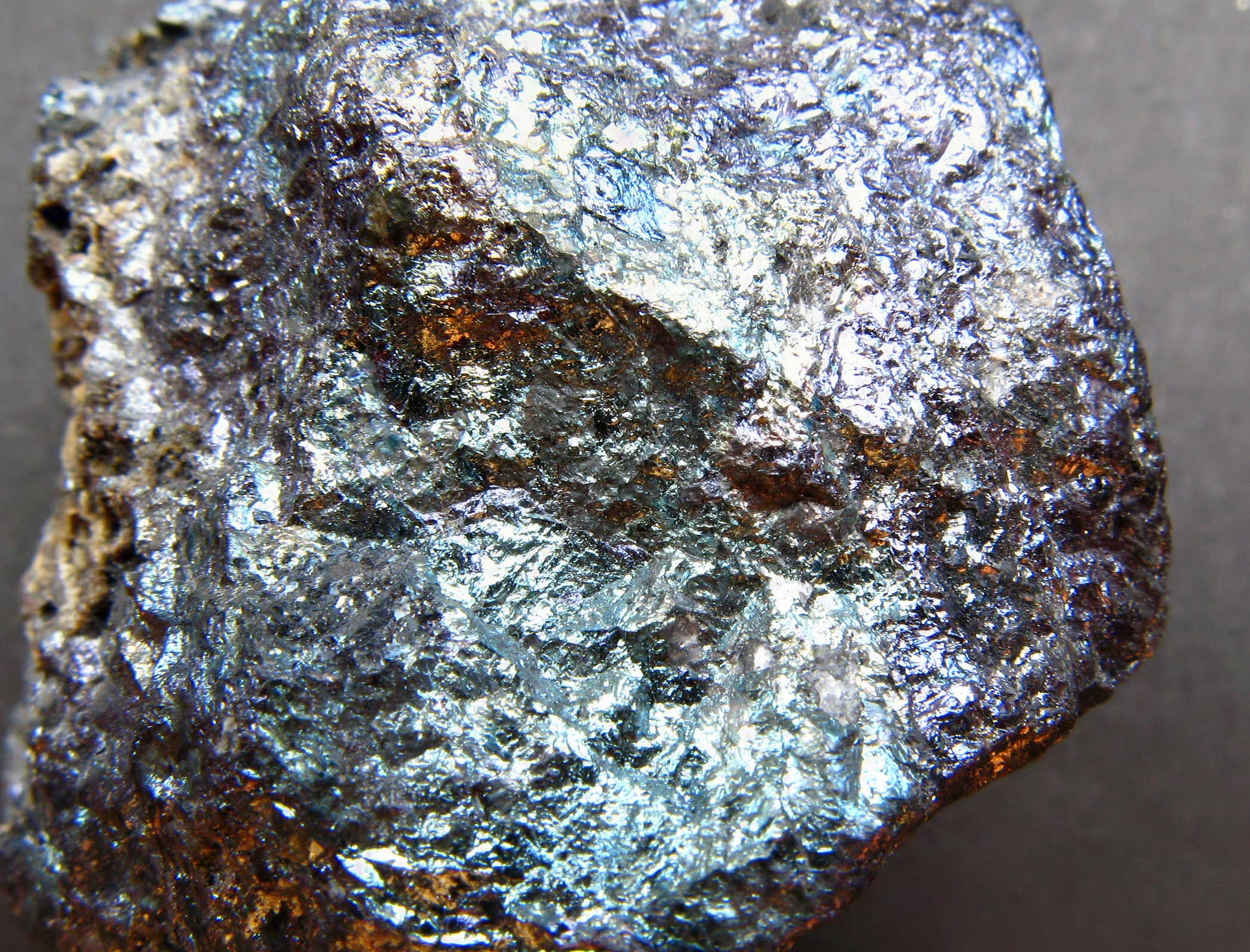 Bornite - Locality: Tsumeb, Namibia